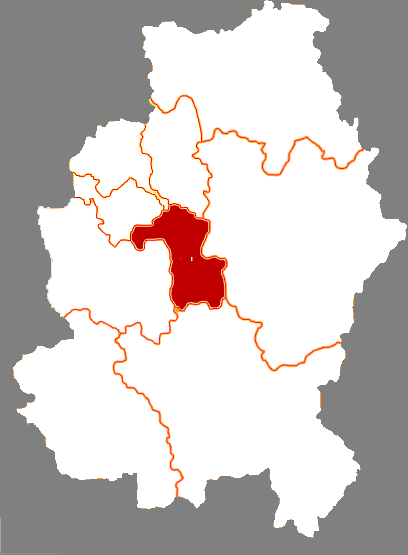 Location of Fengman district in Jilin City, China